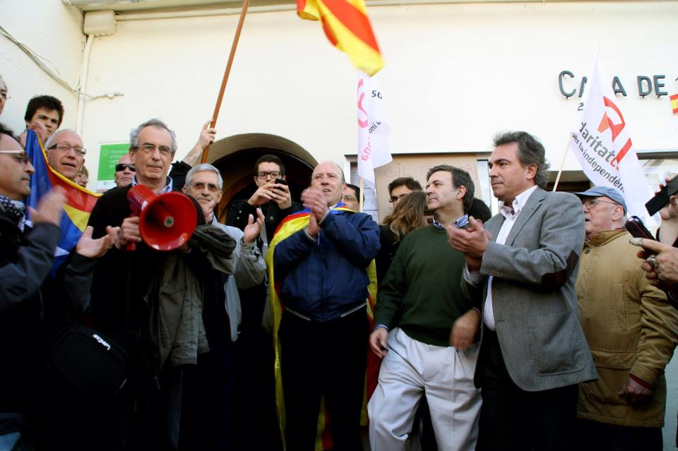 After the plenary in Gallifa, Fornas ready to talk to those attending him at the town hall square. At his left Joan Font (SI) with Alfons López Tena (SI) and Santi Espot (CA).